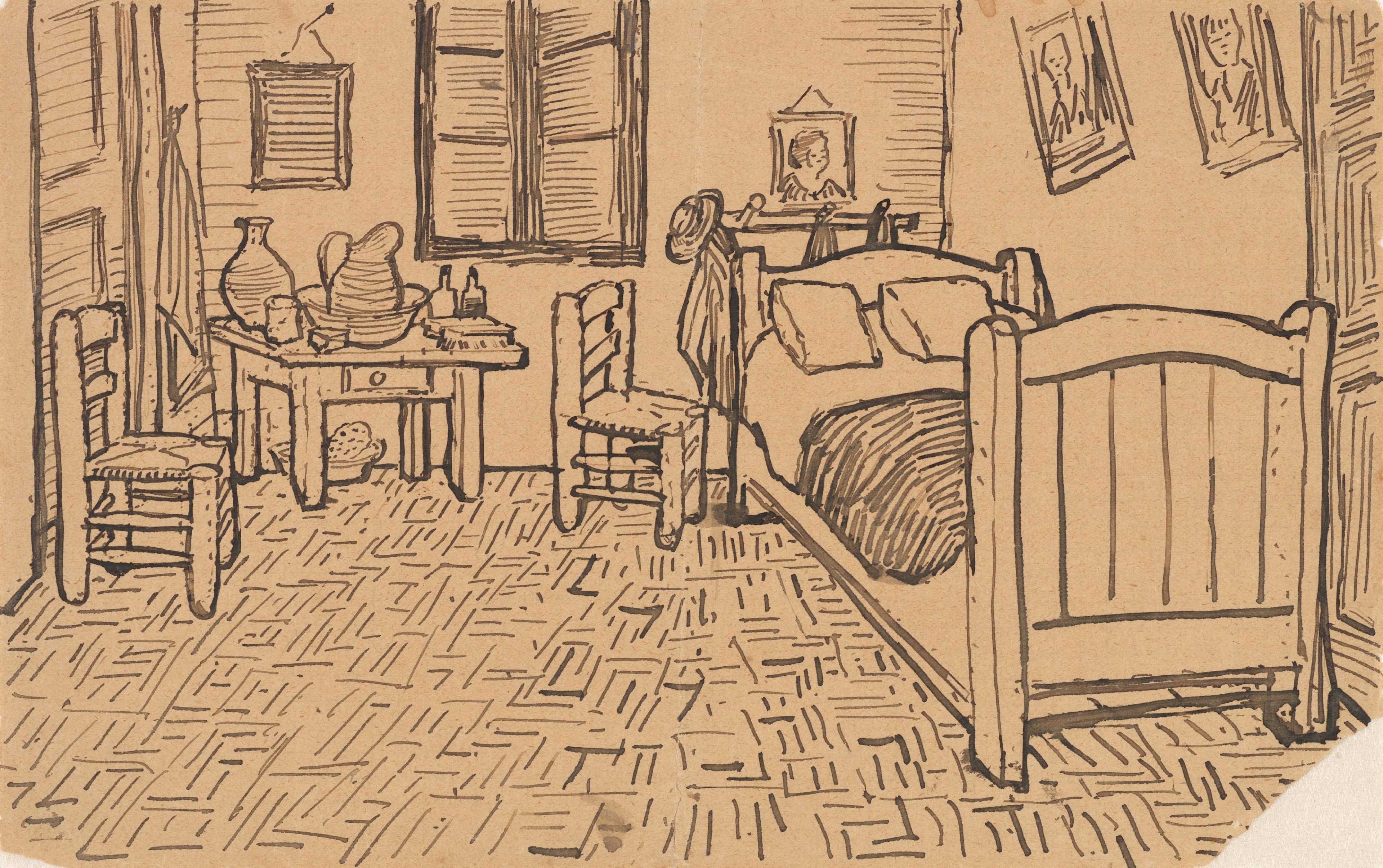 Sketch of The Bedroom, enclosed in a letter from Vincent van Gogh to Theo van Gogh